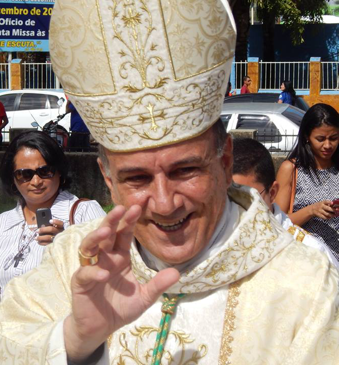 Dom José Ronaldo